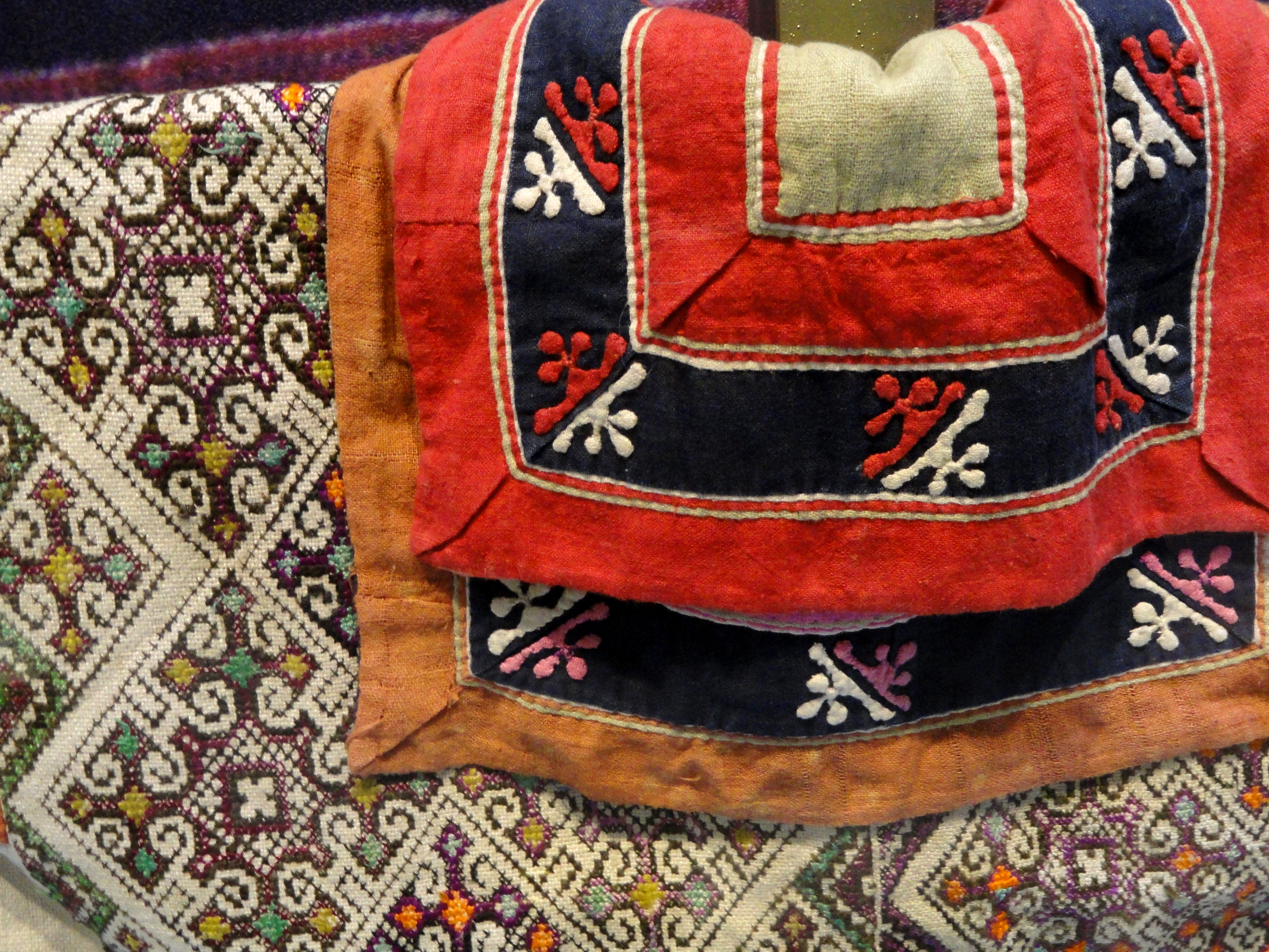 Miao female clothes. Clothing in the Yunnan Provincial Museum, Kunming, Yunnan, China.